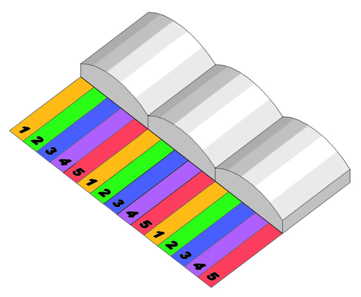 Lenticular stereogram principle